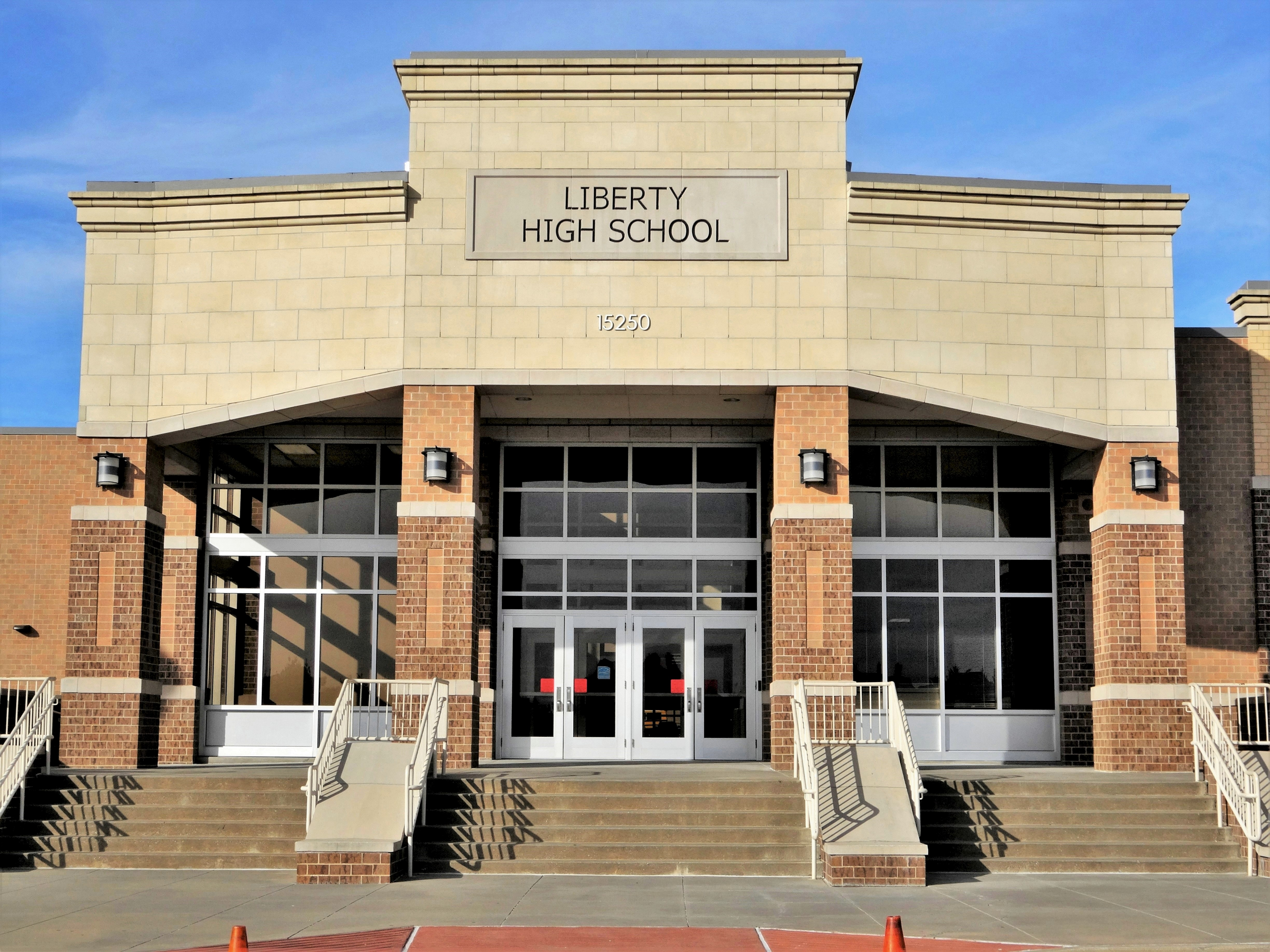 Liberty High School located in Frisco, Texas.